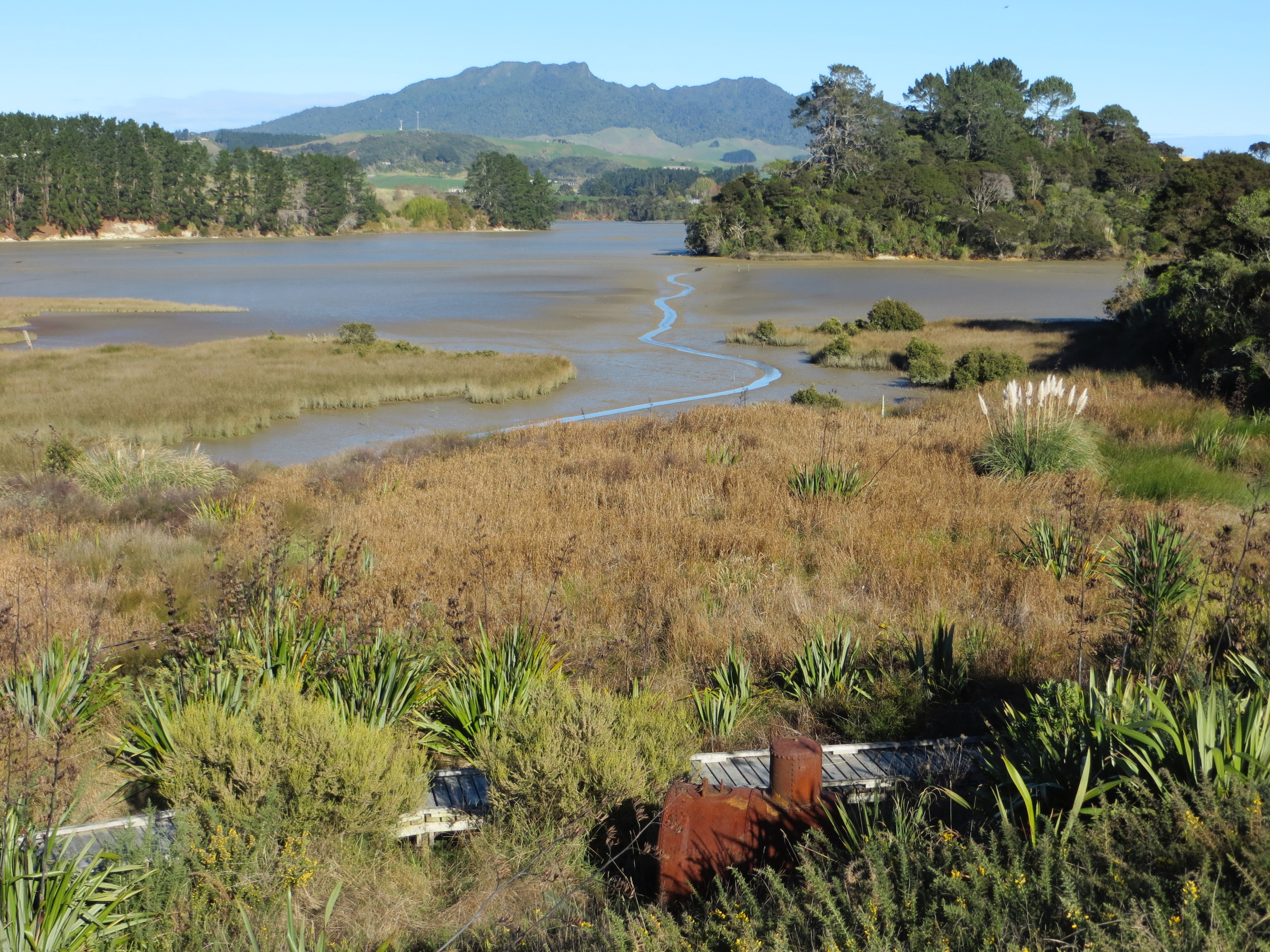 Kario, Kaitoke Creek, Kaitoke Walkway boardwalk and 1904 flax mill boiler